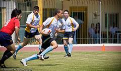 Picture of a rugby player I am a fan of